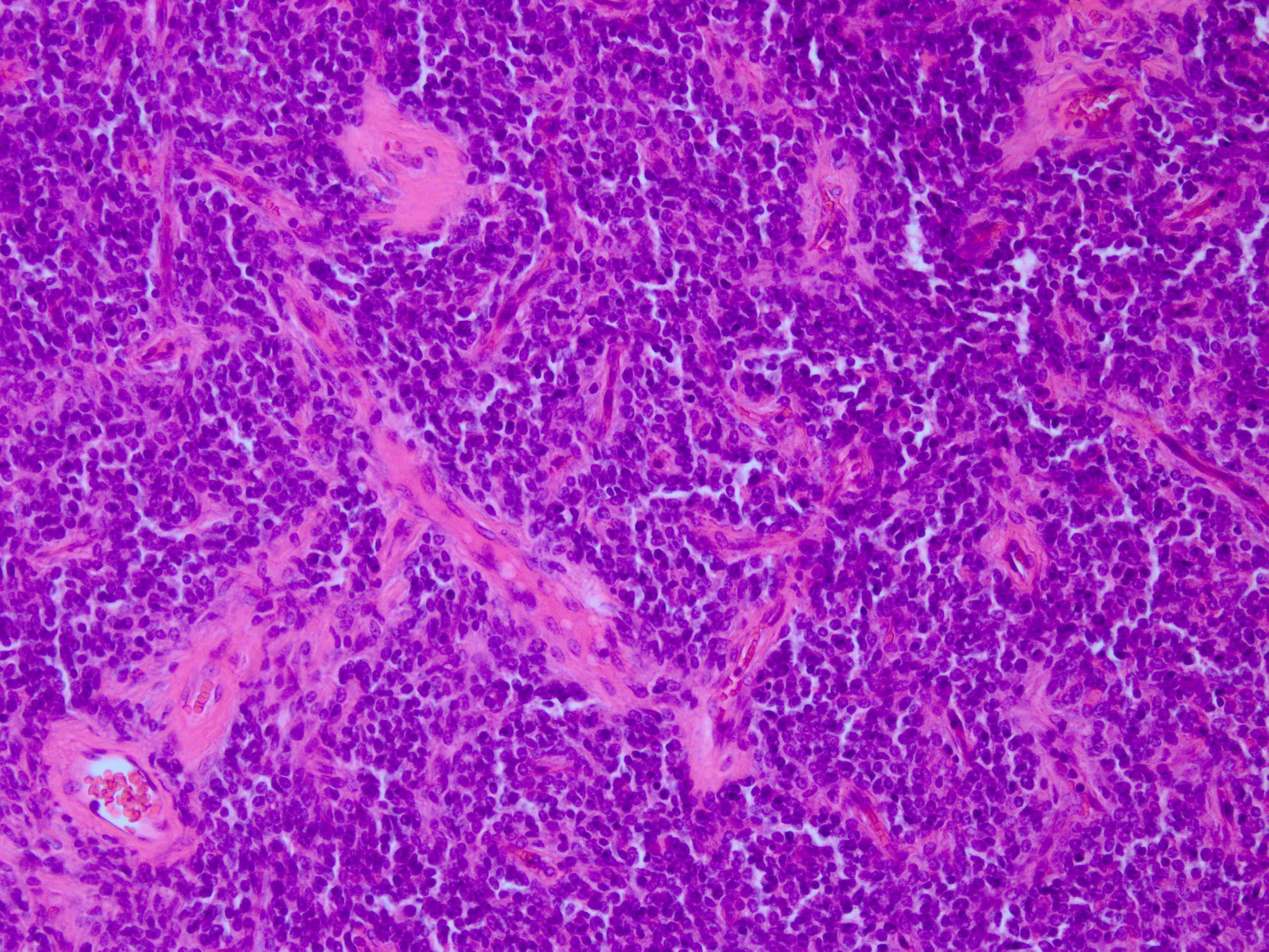 Histopathology of PNET: a small, blue and round cell tumor. H&E staining. Peripheral PNET od spinal location. 200x